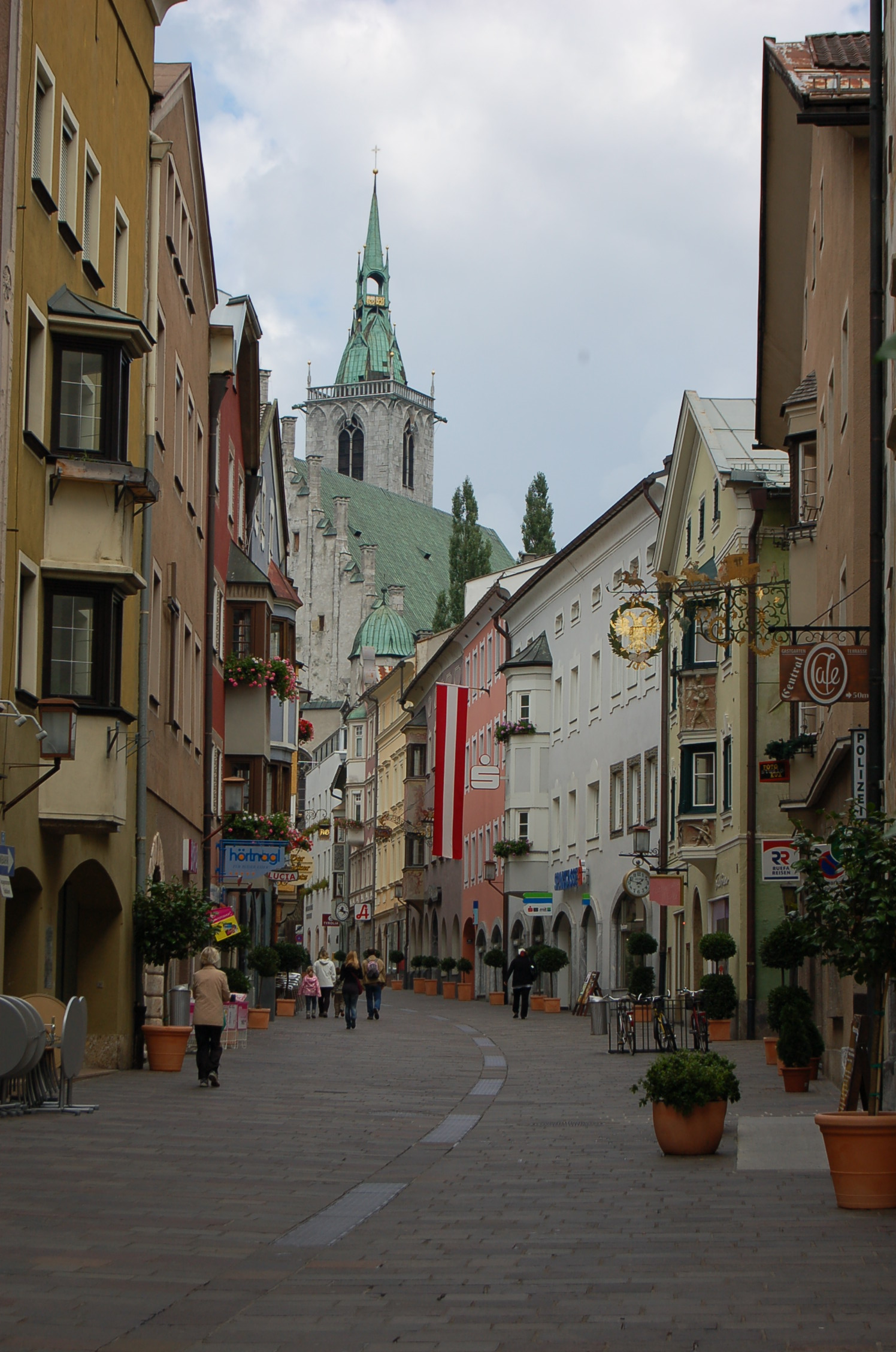 Franz Josef street and parish church of Our Lady at Schwaz, Tyrol